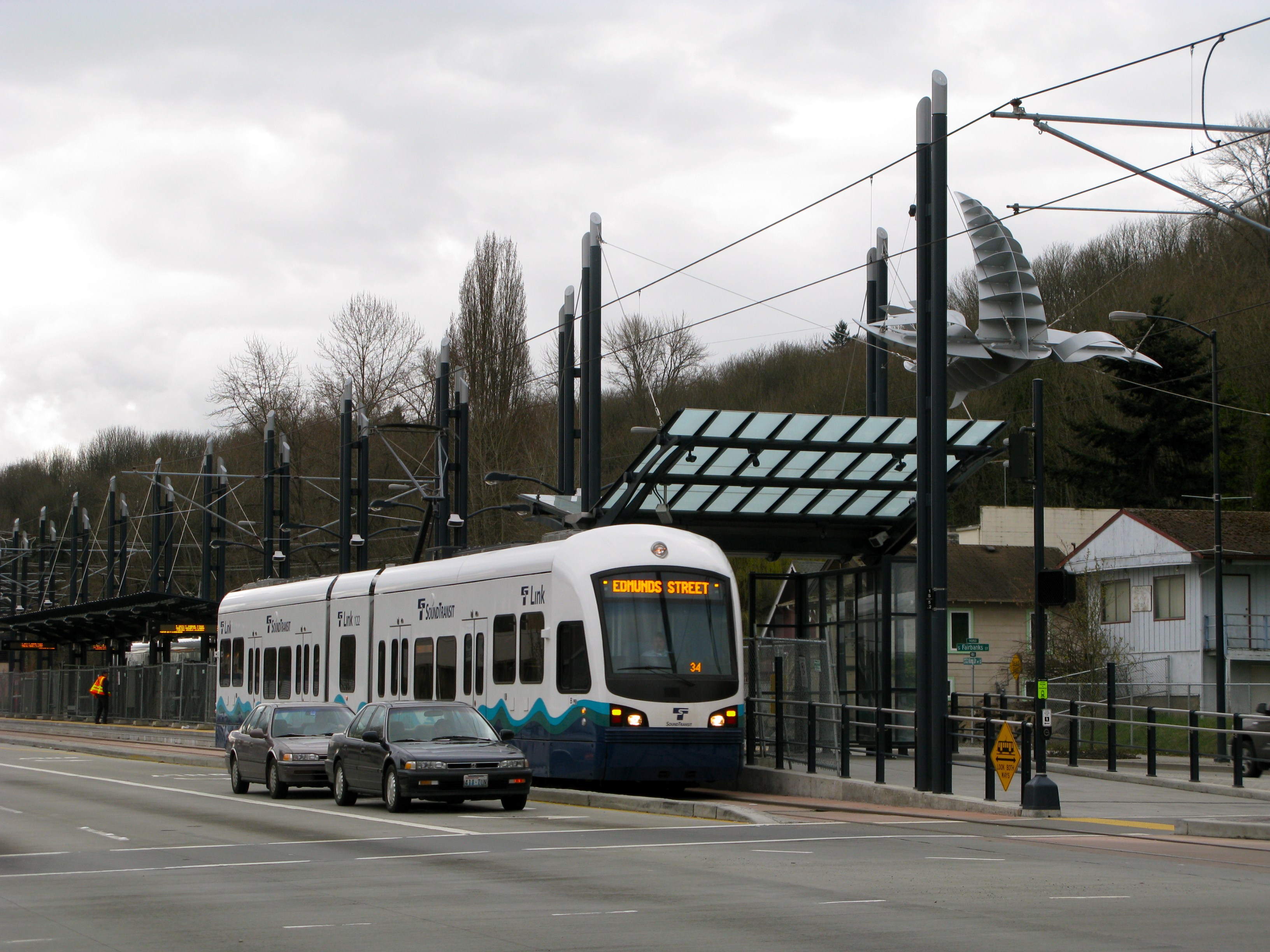 Train signed "Edmunds Street" which is where Columbia City Station is located.